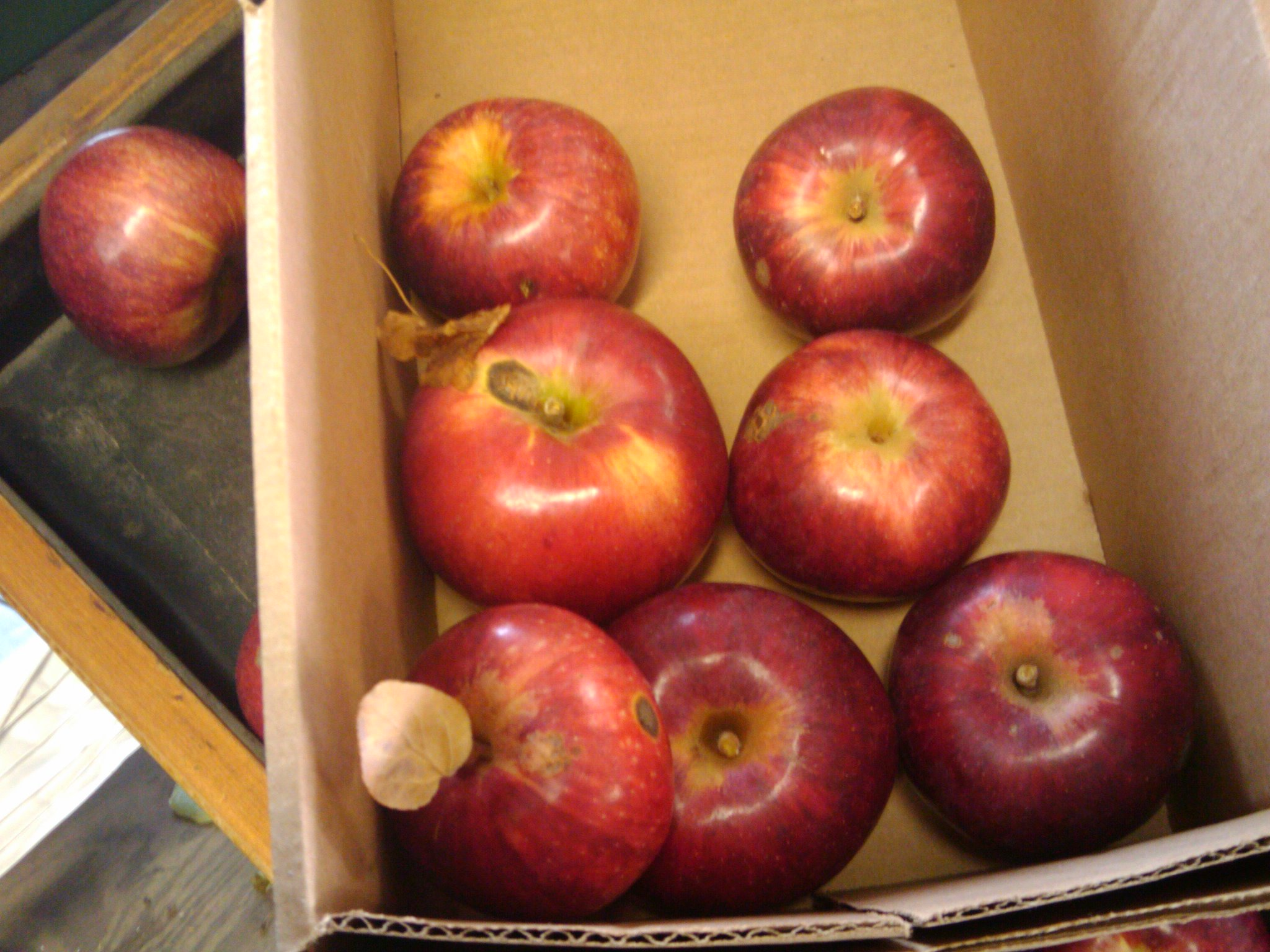 Apples from Golding Farm, 3515 US Rt 20, Perry, Ohio